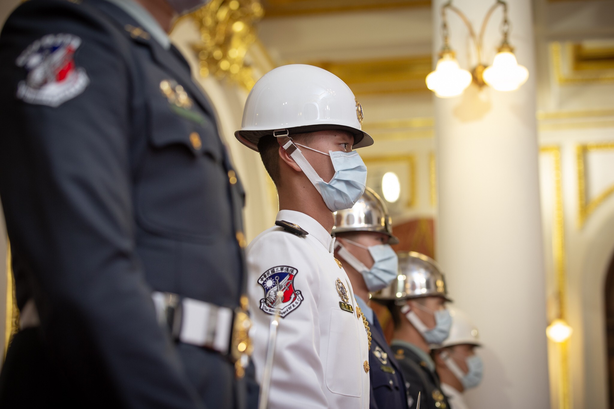 Official Photo by Mori / Office of the President